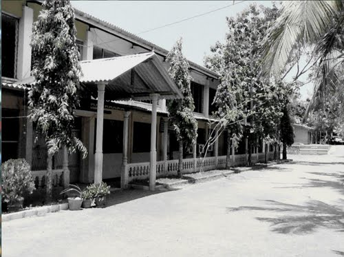 Science College mail building